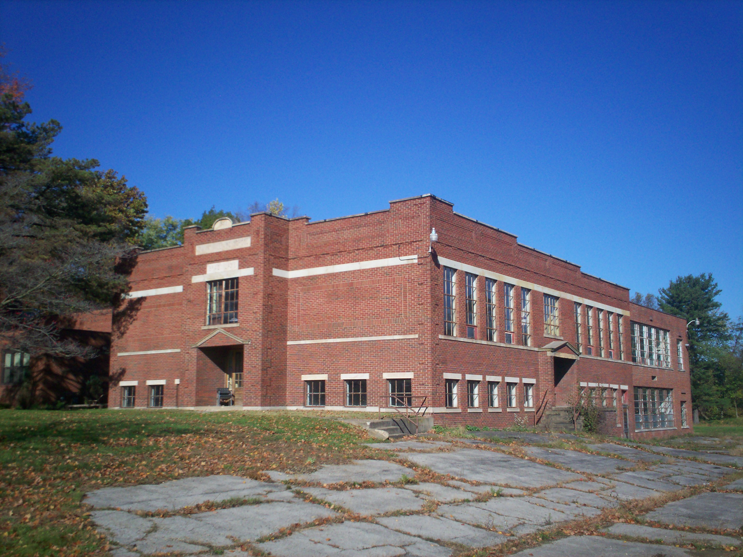 Front view of Emma Williard School in Franklin Township, in between Kent and Brady Lake, Ohio. The original part of the building opened in 1923 and was the only school in the Brady Lake Local School District for grades K-8. Brady Lake merged into the Kent City School District in 1959. The building continued to be used as an elementary school until 1978, when it was closed. As of 2015 it is still standing, but vacant.